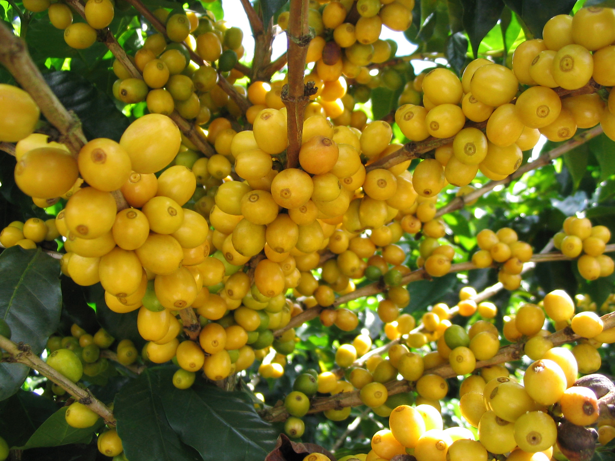 Yellow Catuaí Coffee, a variety of COFFEA ARABICA - town of Manhuaçu - Minas Gerais State - Brazil.